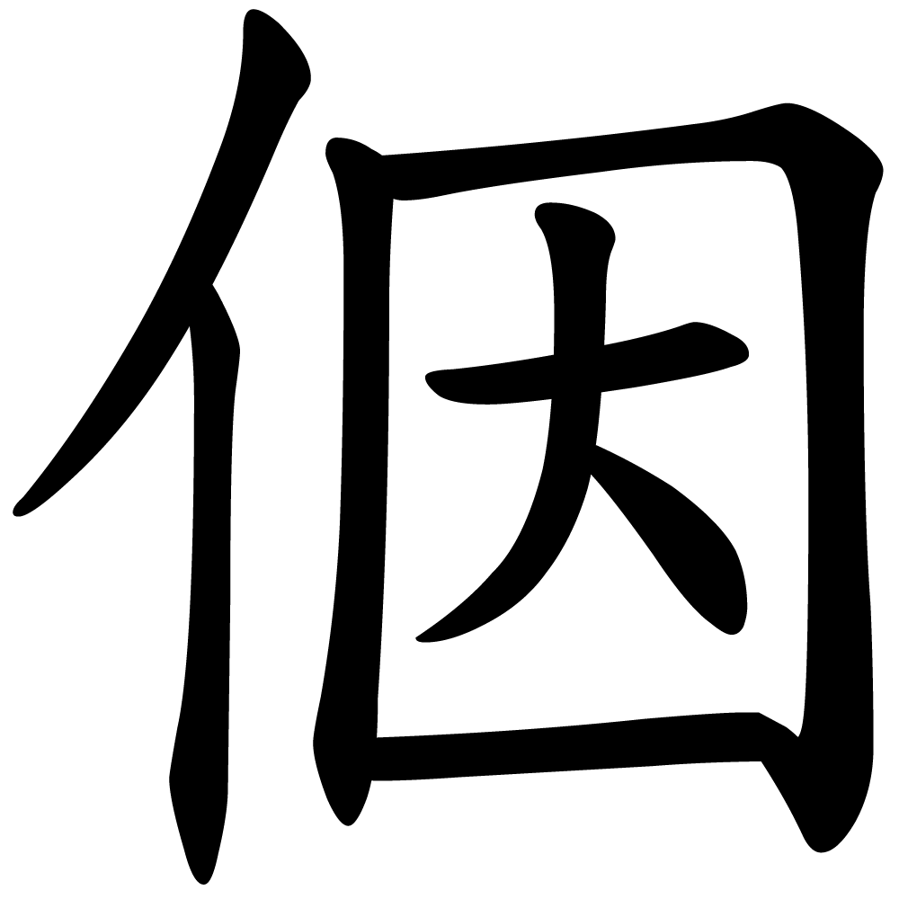 𪜶 (in), personal pronoun for "you" in Hokkien dialects (e.g. Taiwanese, Amoy), etc. Now added to CJK Unified Ideographs Extension C at U+2A736 (𪜶).